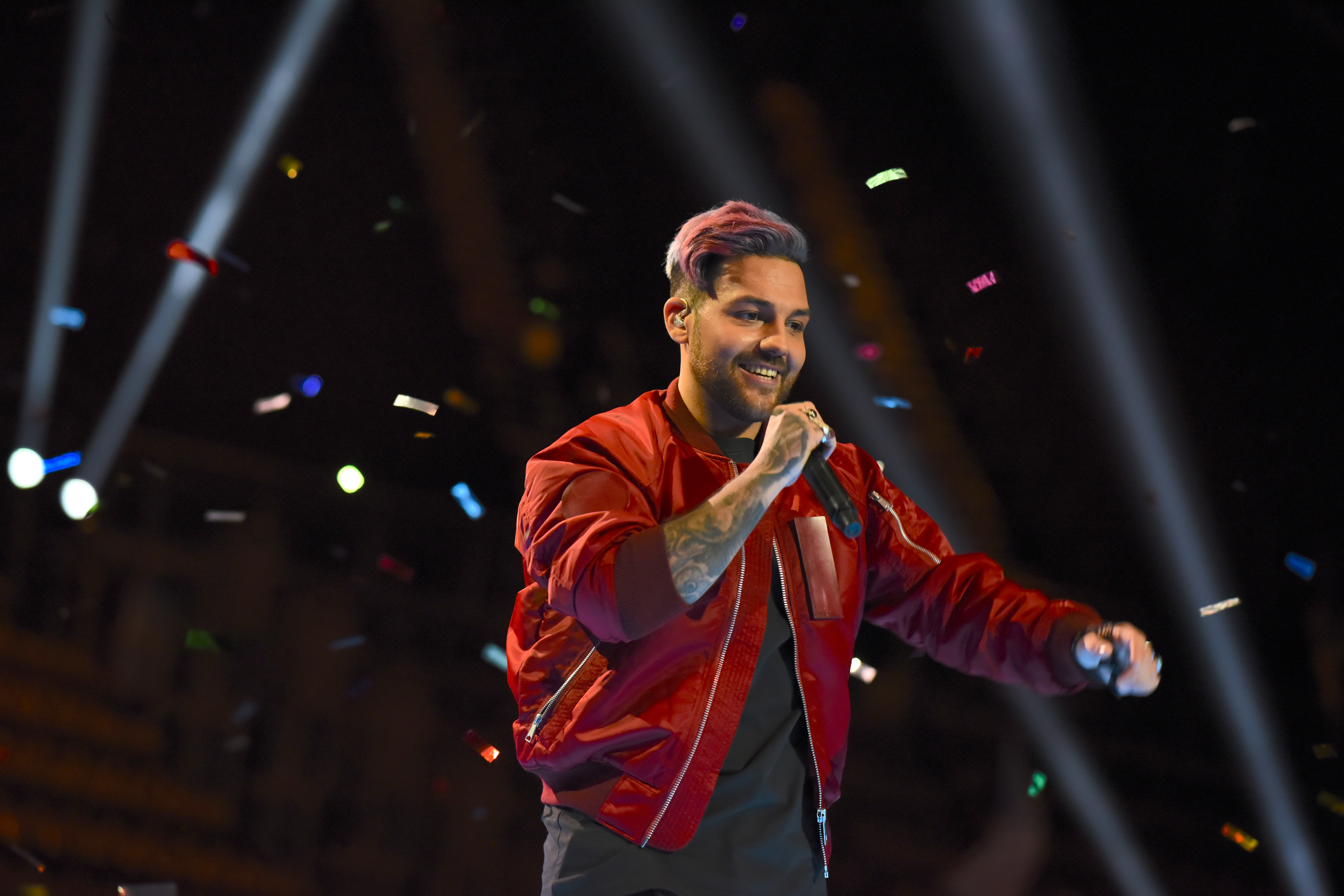 Melodi Grand Prix 2018